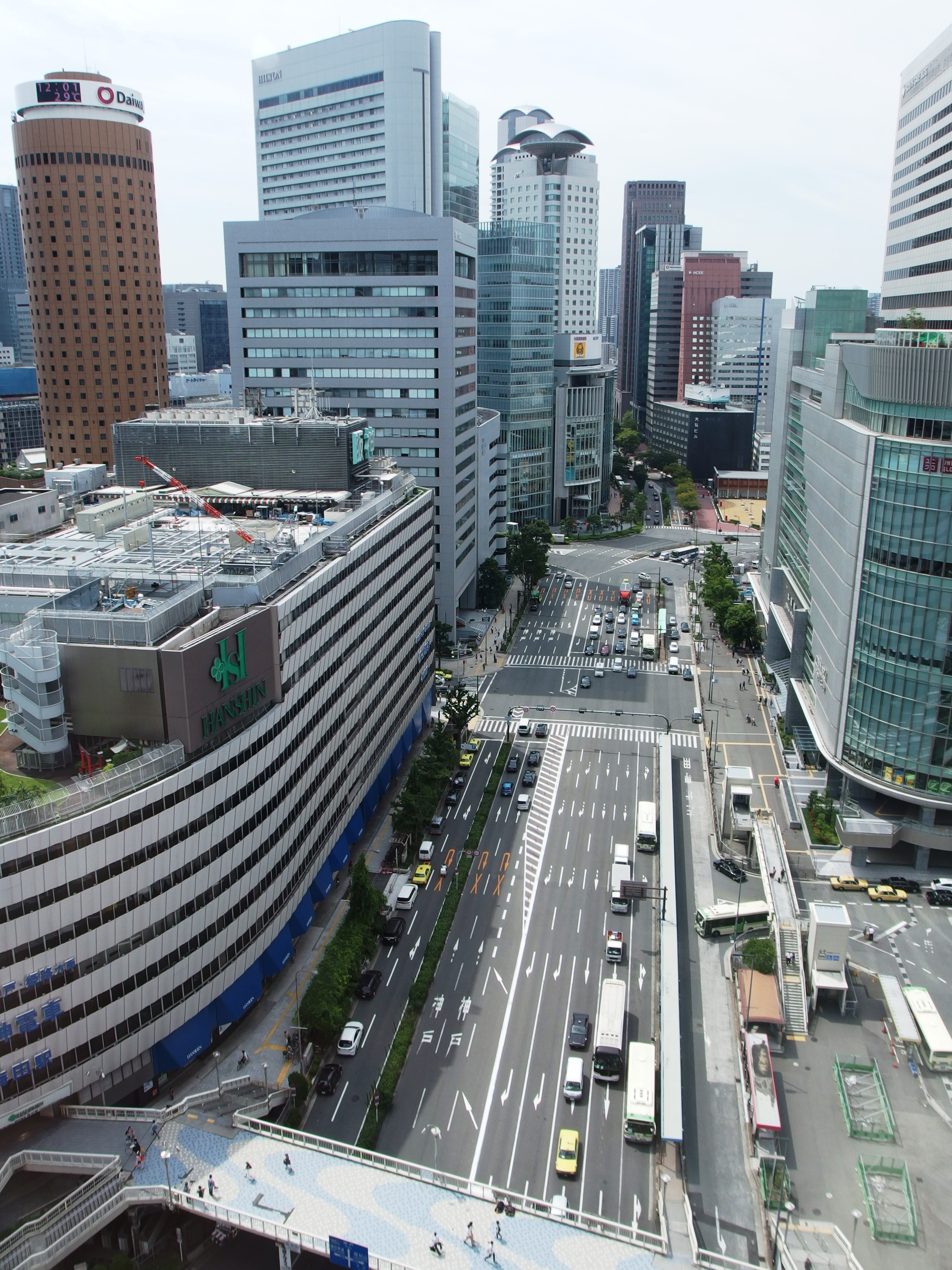 Osaka Station, Osaka, Osaka Prefecture, Japan